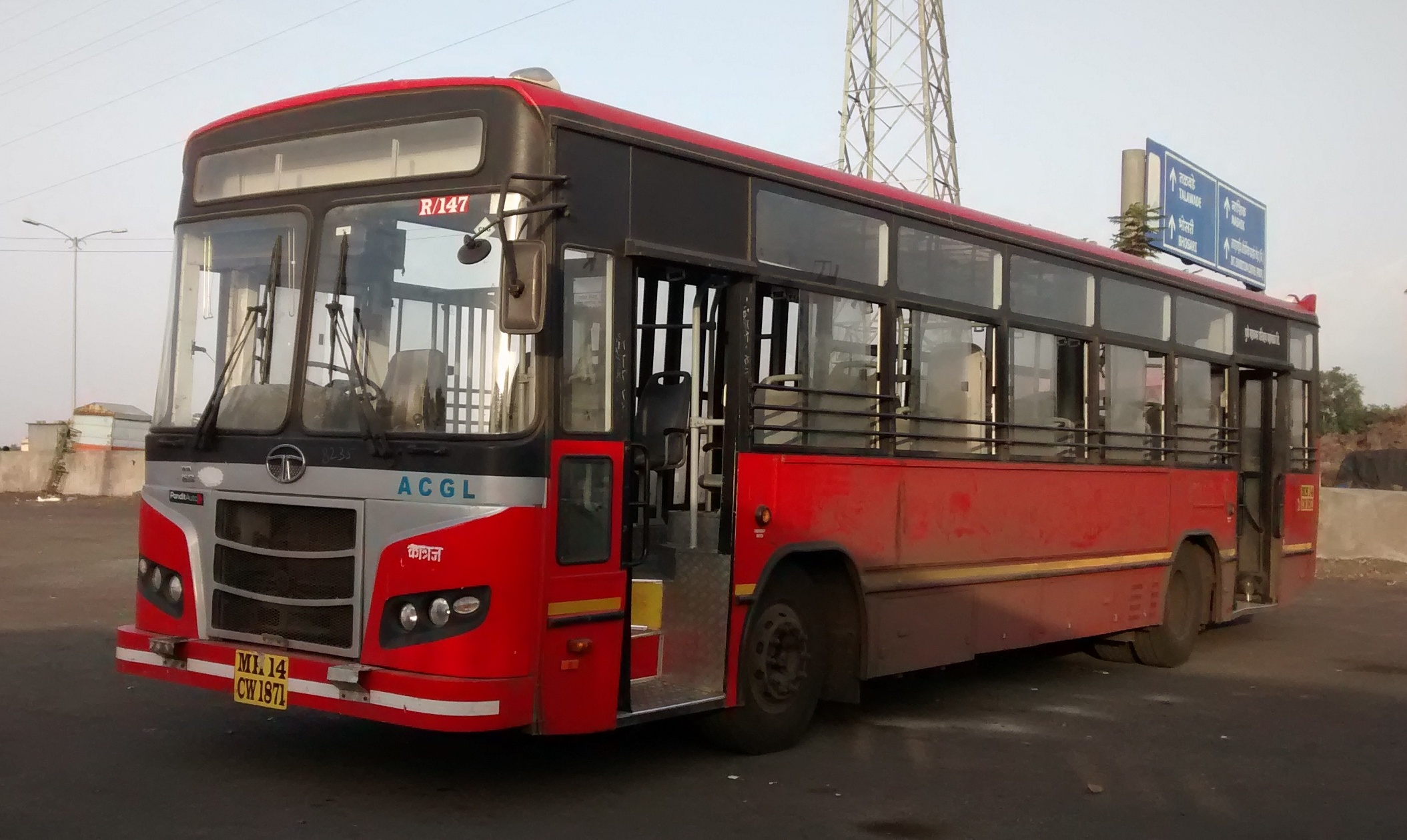 PMPML Bus at Nigdi Depot